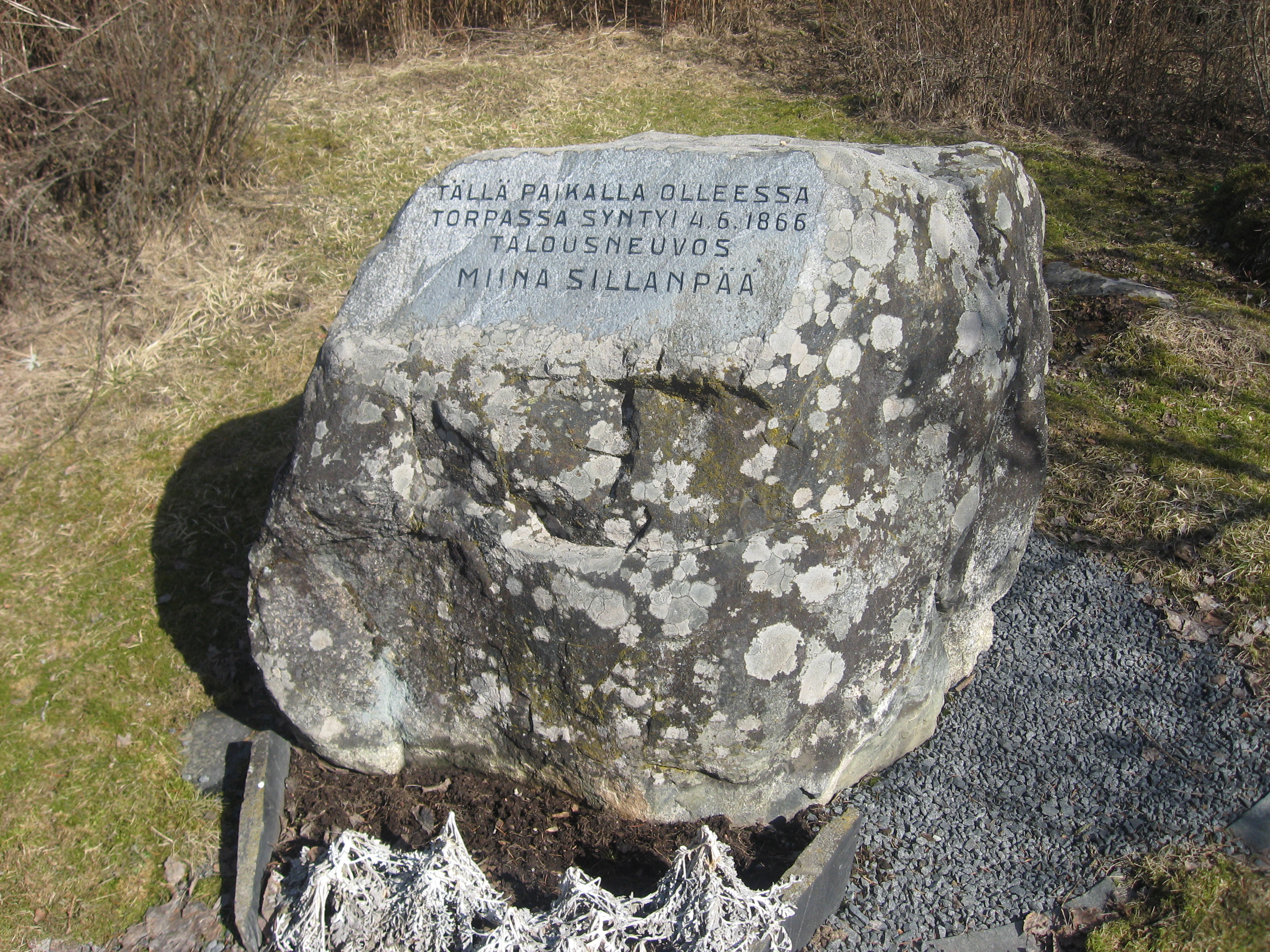 Memorial of Miina Sillanpää in Jokioinen, Finland